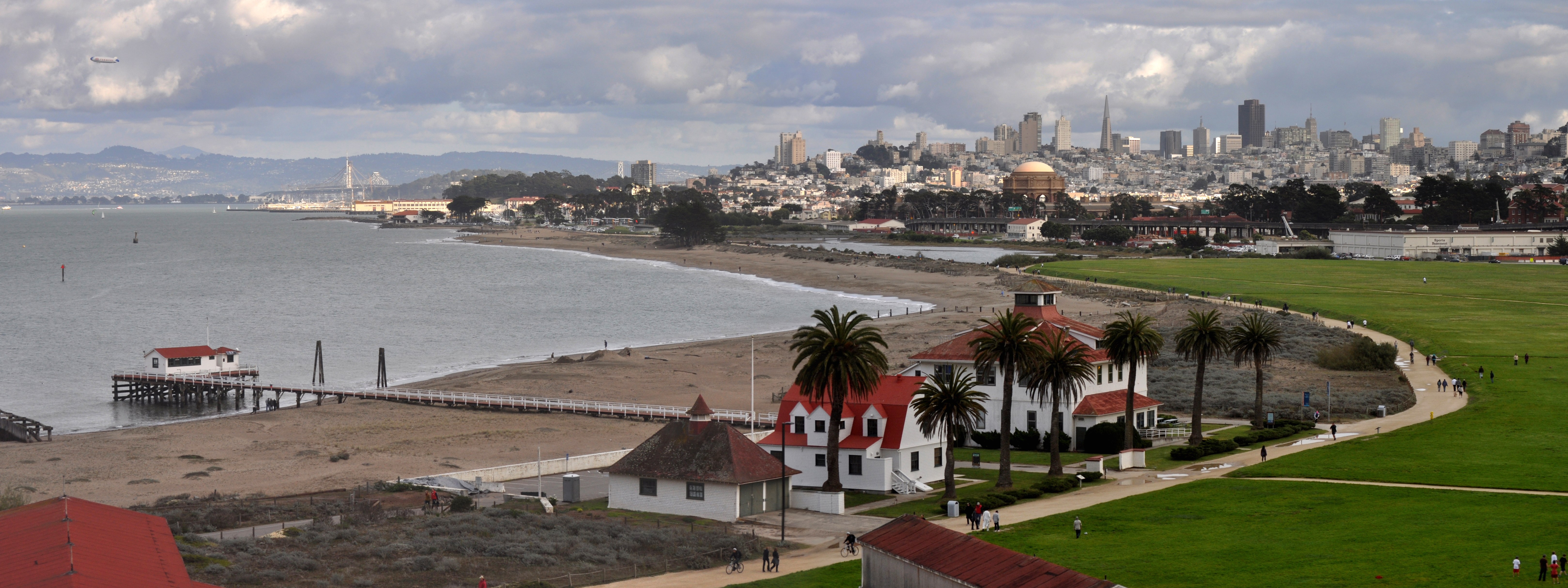 San Francisco, California, as seen from near the Golden Gate Bridge